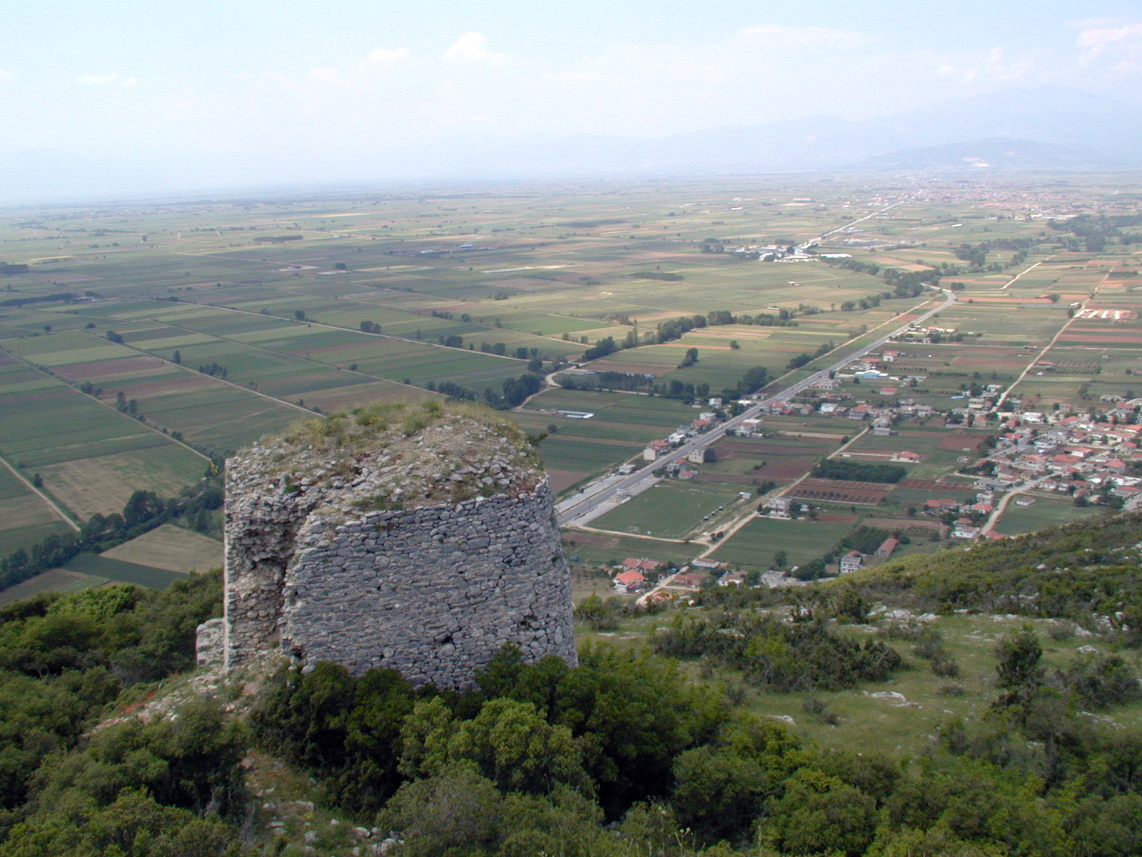 Philippi's plain as seen from the summit of the acropolis (looking West) (Byzantine tower at the foreground), where the first battle of Philippi was fought. Photograph taken by Marsyas on 05/20/2000.